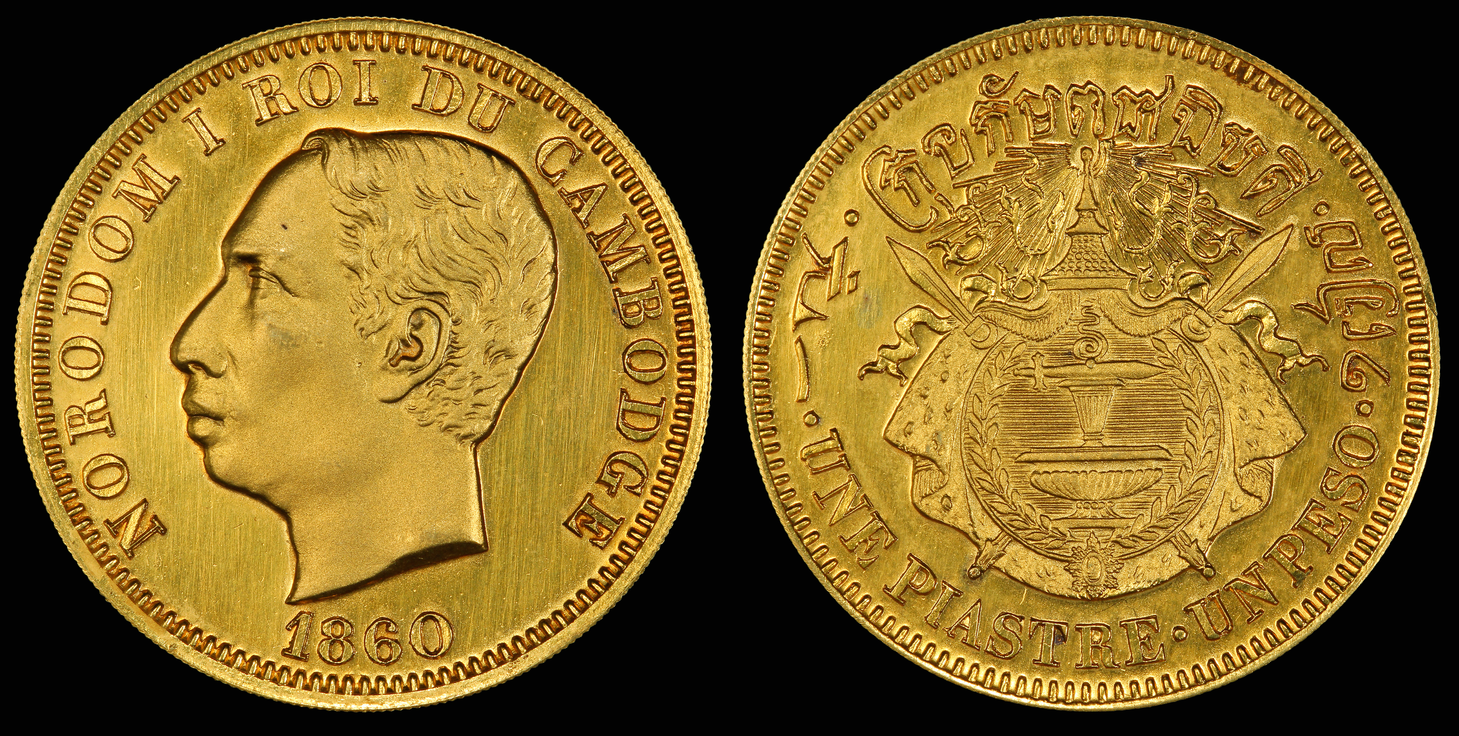 Kingdom of Cambodia, 1 Piastre (1860) depicting Norodom of Cambodia the first year of his reign.